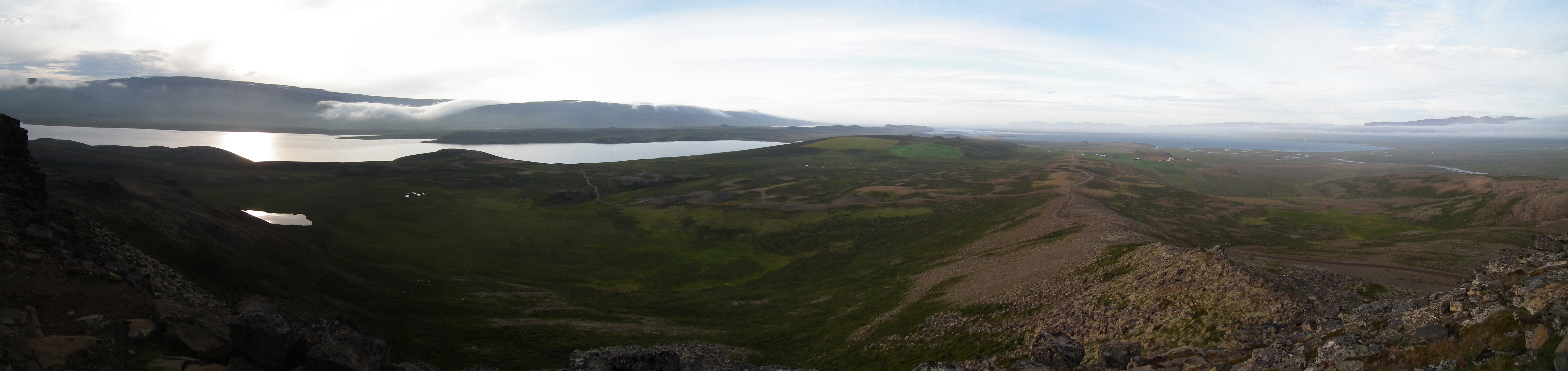 View from Borgarvirki (west, north and east), in Vatnsnes peninsula, Northern Iceland.